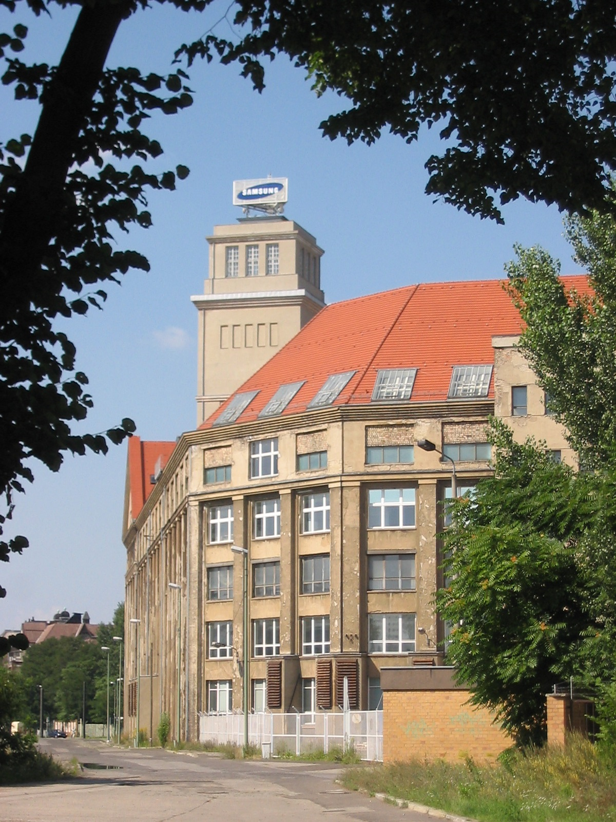 Monument "Peter-Behrens-Bau" in Berlin-Oberschöneweide, Germany, built 1915–1917 by Peter Beherens. The tower is 58 m high.